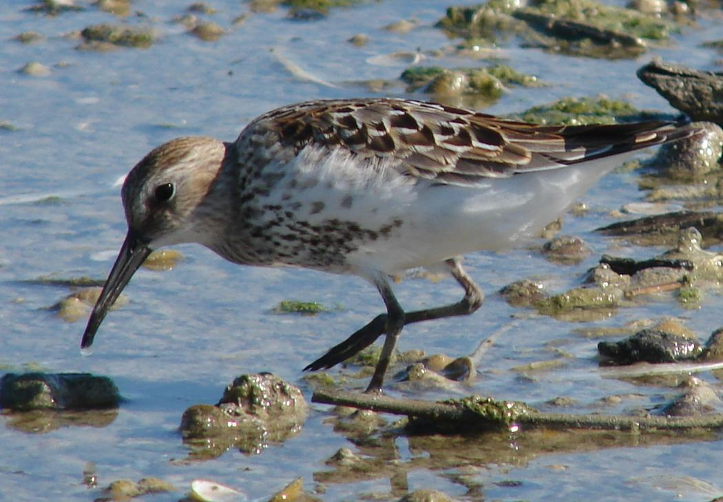 Calidris alpina -- a juvenile bird with the first grey feathers of the winter plumage already visible on the back (River Danube at Gerjen, Hungary, 28-08-2012)